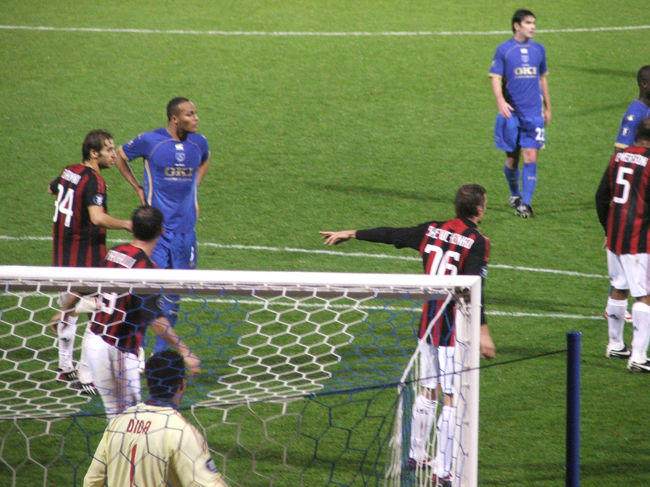 Younes Kaboul of Portsmouth is defended by Mathieu Flamini of AC Milan.